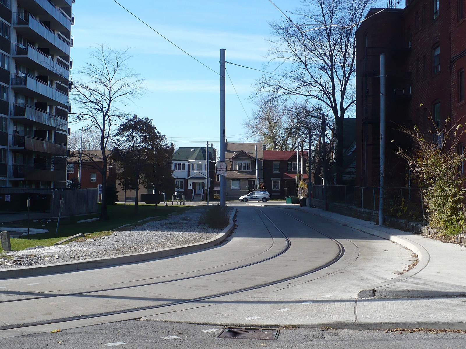 Oakwood TTC streetcar loop in Toronto